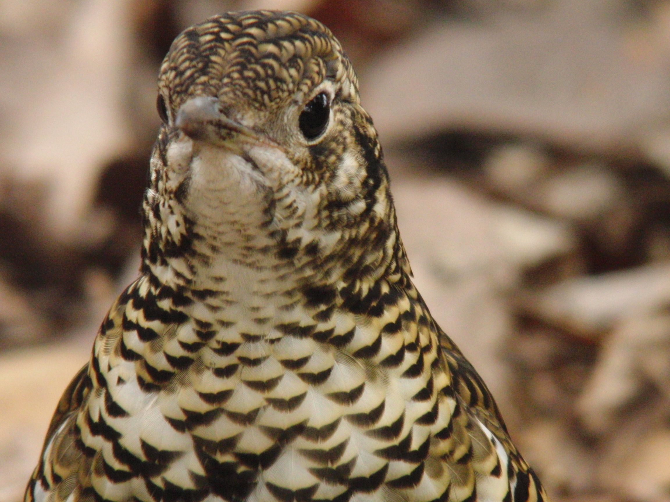 Zoothera aurea, Kasai Rinkai Park, Tokyo